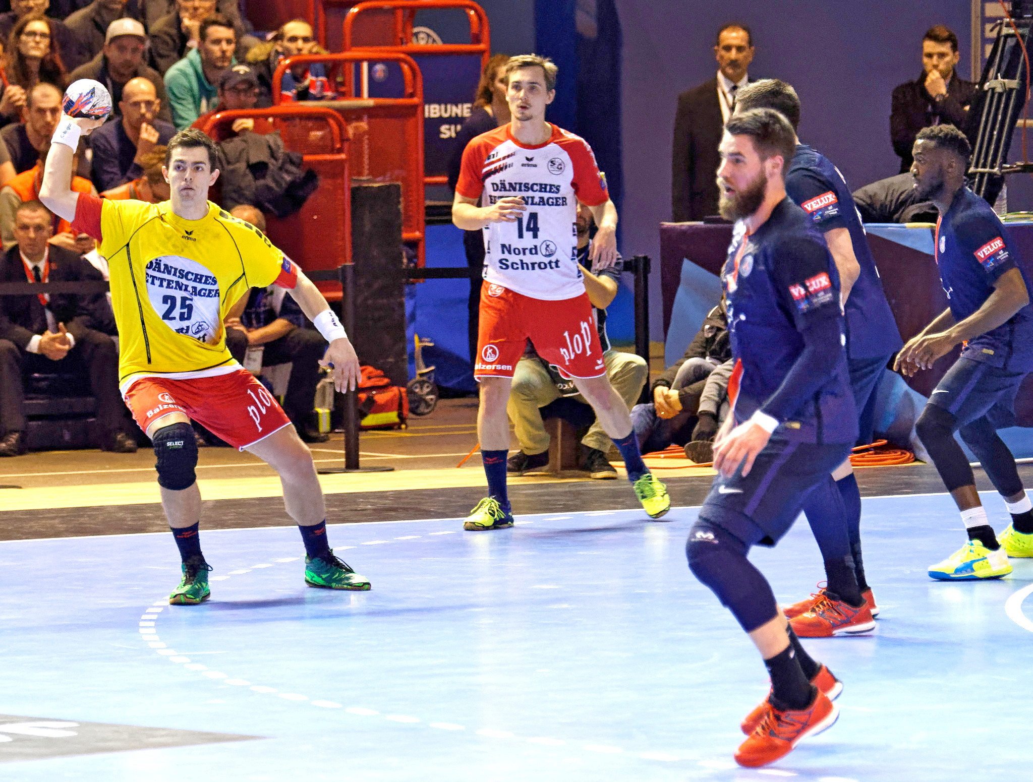 Rasmus Lauge Schmidt wearing a bib. He is then authorized to act as goalkeeper if necessary. The color of the bib must be the same as the color of the jersey of the goalkeeper of his team.